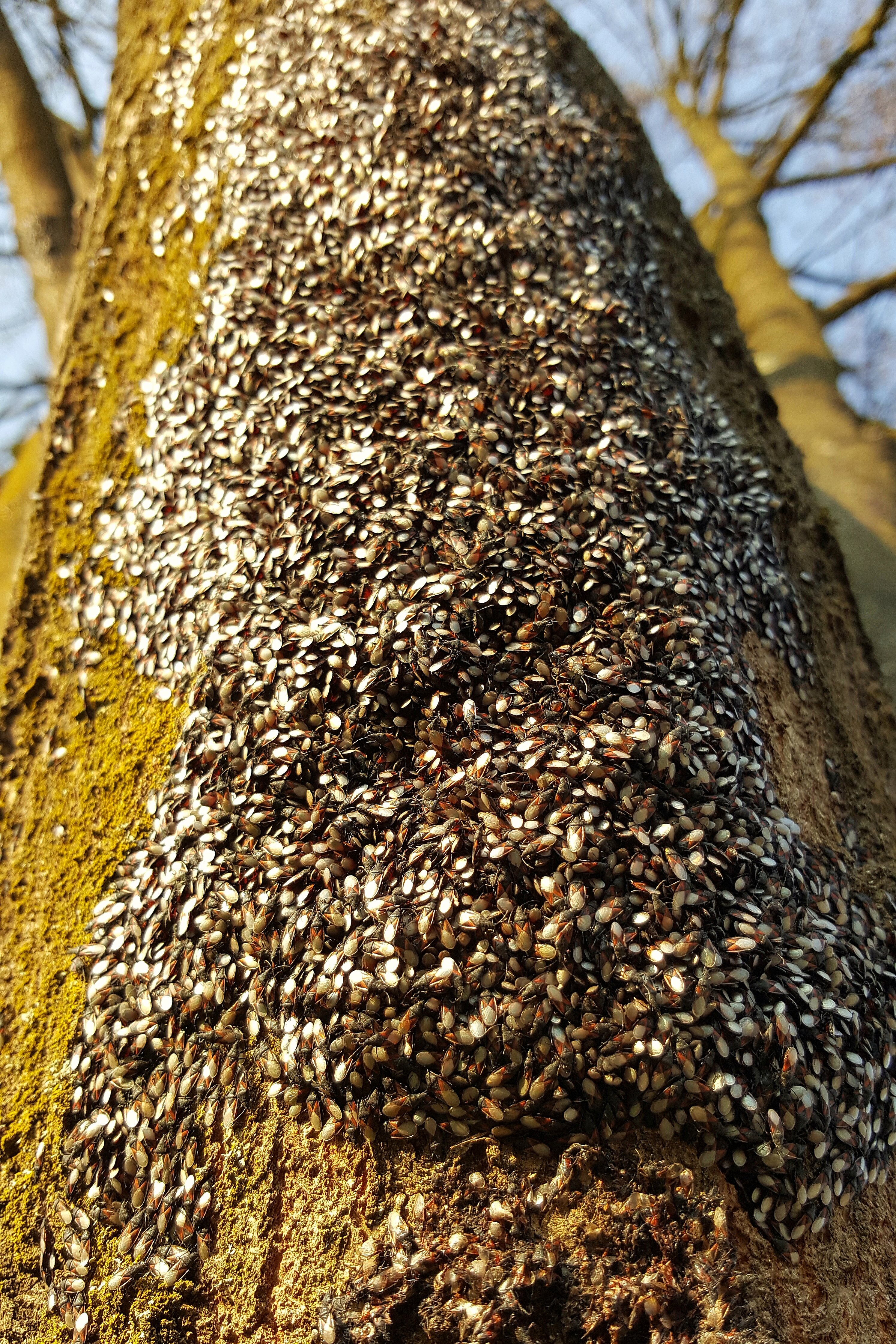 Oxycarenus lavaterae bugs aggregate on a linden tree in the spring